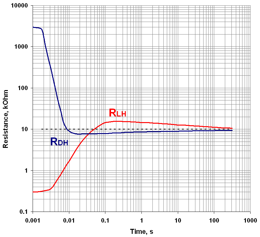 Response of a LED-LDR optoisolator (vactrol) to a step change in LED current. Note that time scale is logarithmic! Blue trace: response of a vactrol that was kept dark long enough. Owing to memory effect (common to all cadmium compounds), it overshoots steady-state resistance, initially going to a low "infinite dark" resistance (Rdh), then slowly recovers to steady-state target (black dashed line). Most cadmium compounds take hours to settle down completely (below measurement error), although some take weeks. Red trace: response of a vactrol that was kept brightly illuminated. It overshoots in another direction, to a higher-than-expected value (Rlh). Increase in resistance (red trace) is typically slower than decrease (blue trace). Adapted from charts and textual information in PerkinElmer (2001). Photoconductive Cells and Analog Optoisolators (Vactrols®). pp. 7-11, 29, 34.